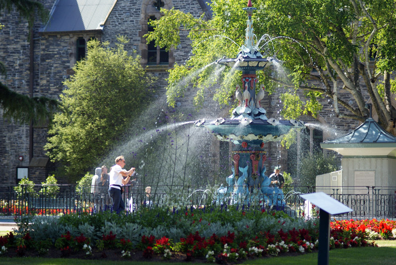 Peacock Fountain